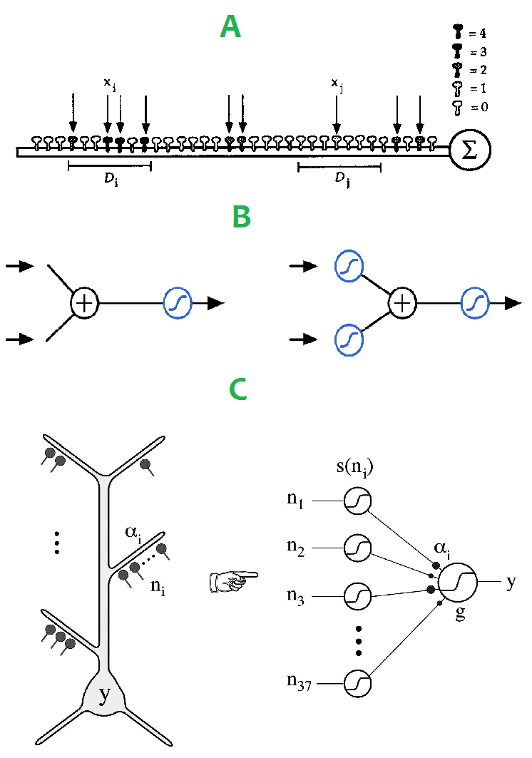 Types of dendritic integation. Clusteron, Linear model and Two-Layer Neural Network. Adapted and modified from &